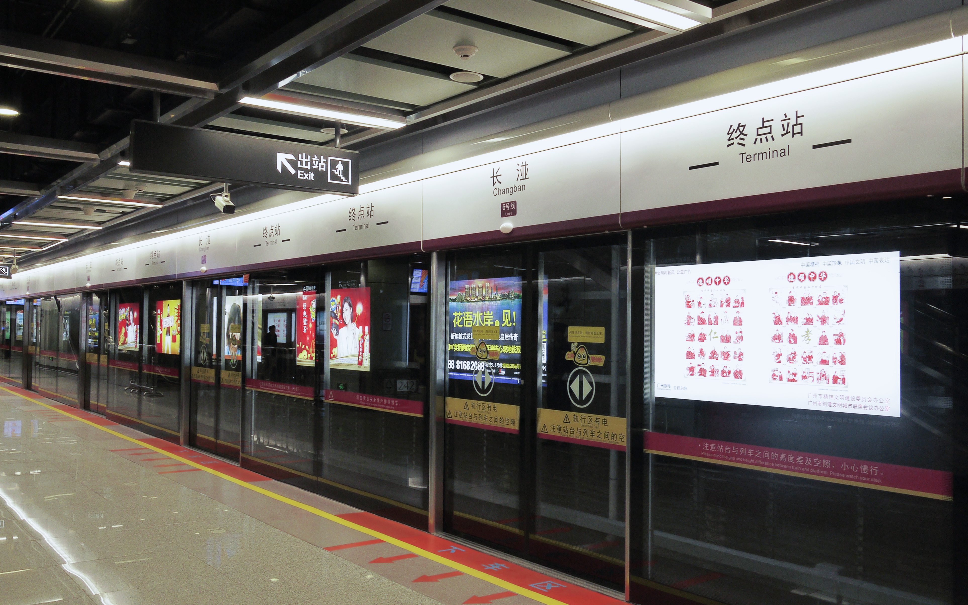 CHANG BAN STA.